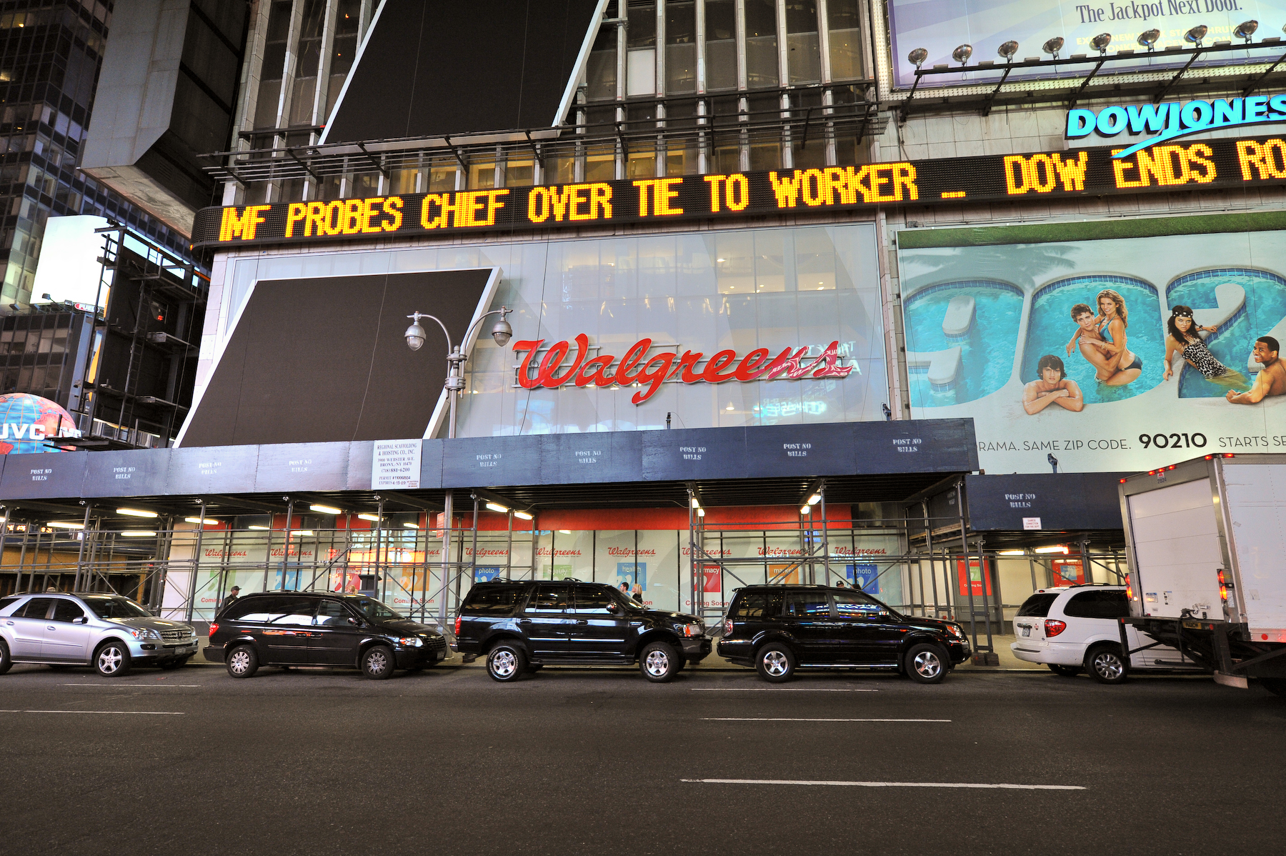 Walgreens pharmacy location under construction in New York City